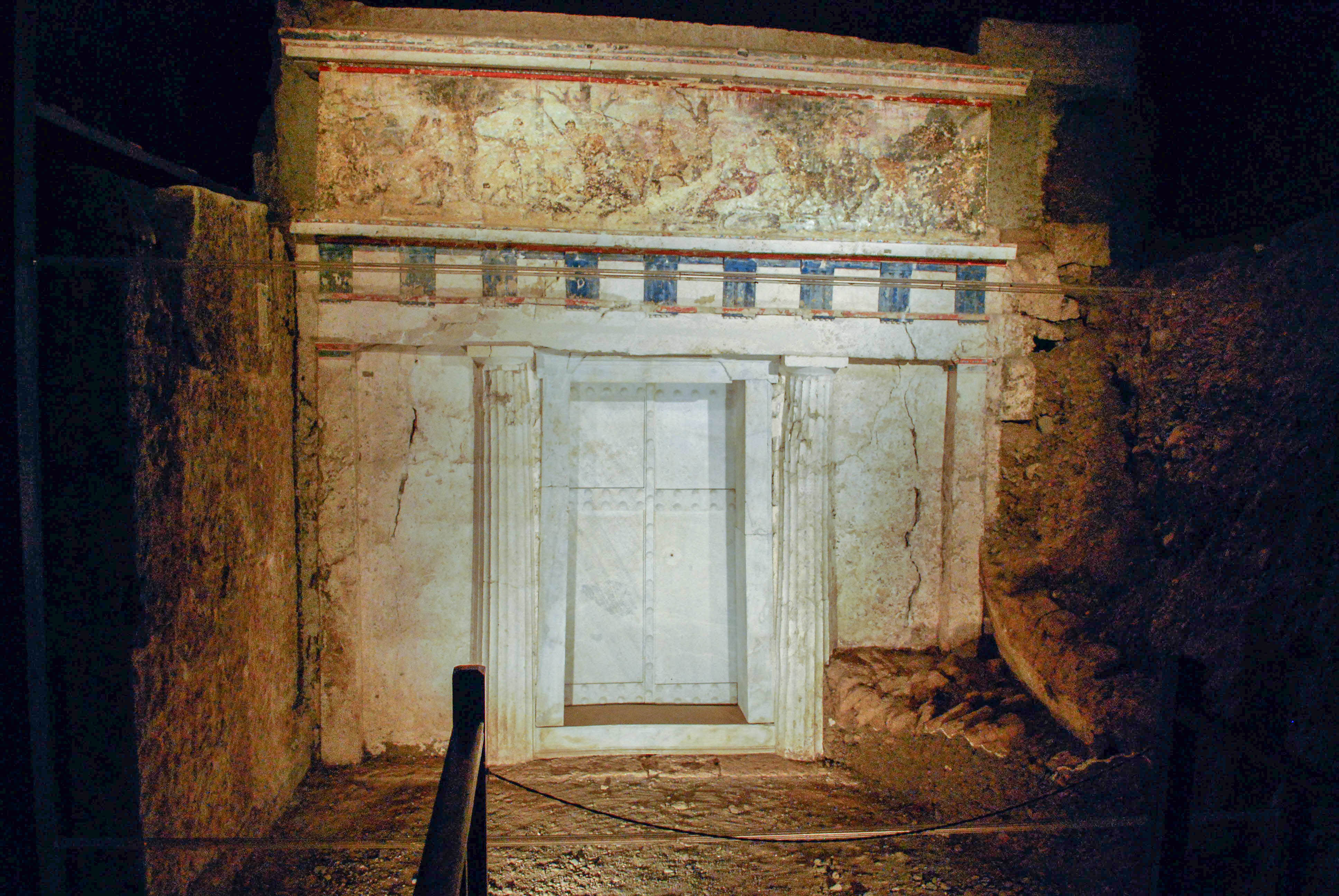 Facade of Philip II of Macedon tomb in Vergina, Greece. The door is made of marble and the order is doric.